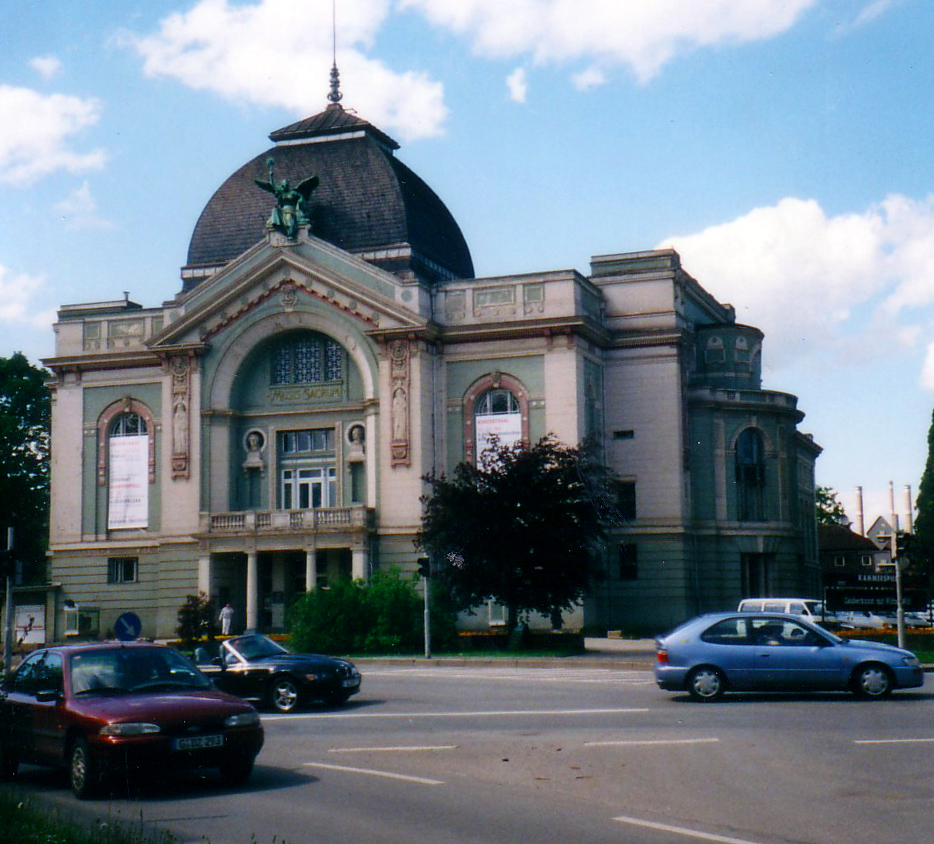 Theater in Gera, Germany (condition before reconstruction from 2005 to 2007)